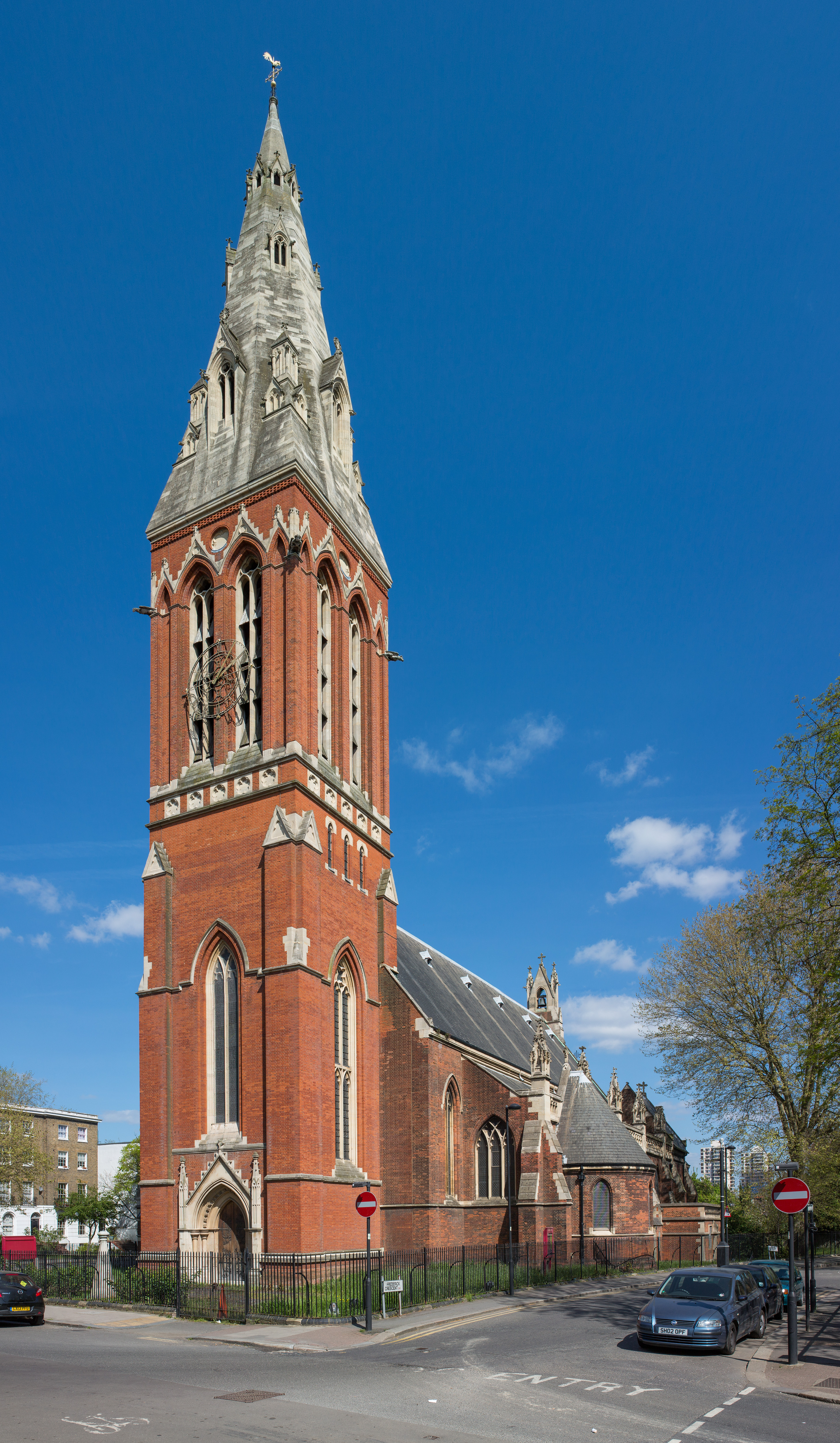 The exterior view of St John the Divine, Kennington, looking north-east from Elliot Rd.